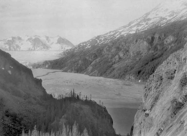 Written on verso: The glacier through the gorge. Neg. No. 91. PH Coll 1121.6 Subjects (LCTGM): Glaciers--British Columbia Subjects (LCSH): Llewellyn Glacier (B.C.)